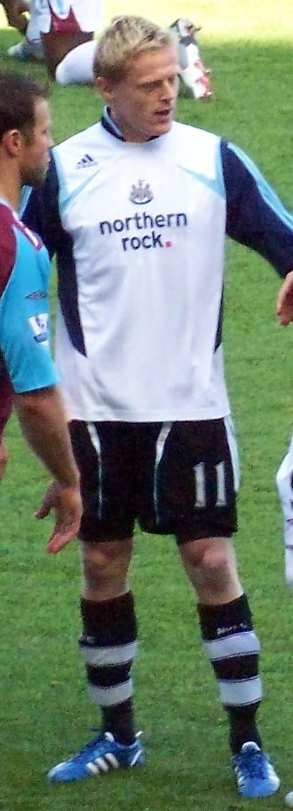 Irish football (soccer) player Damien Duff